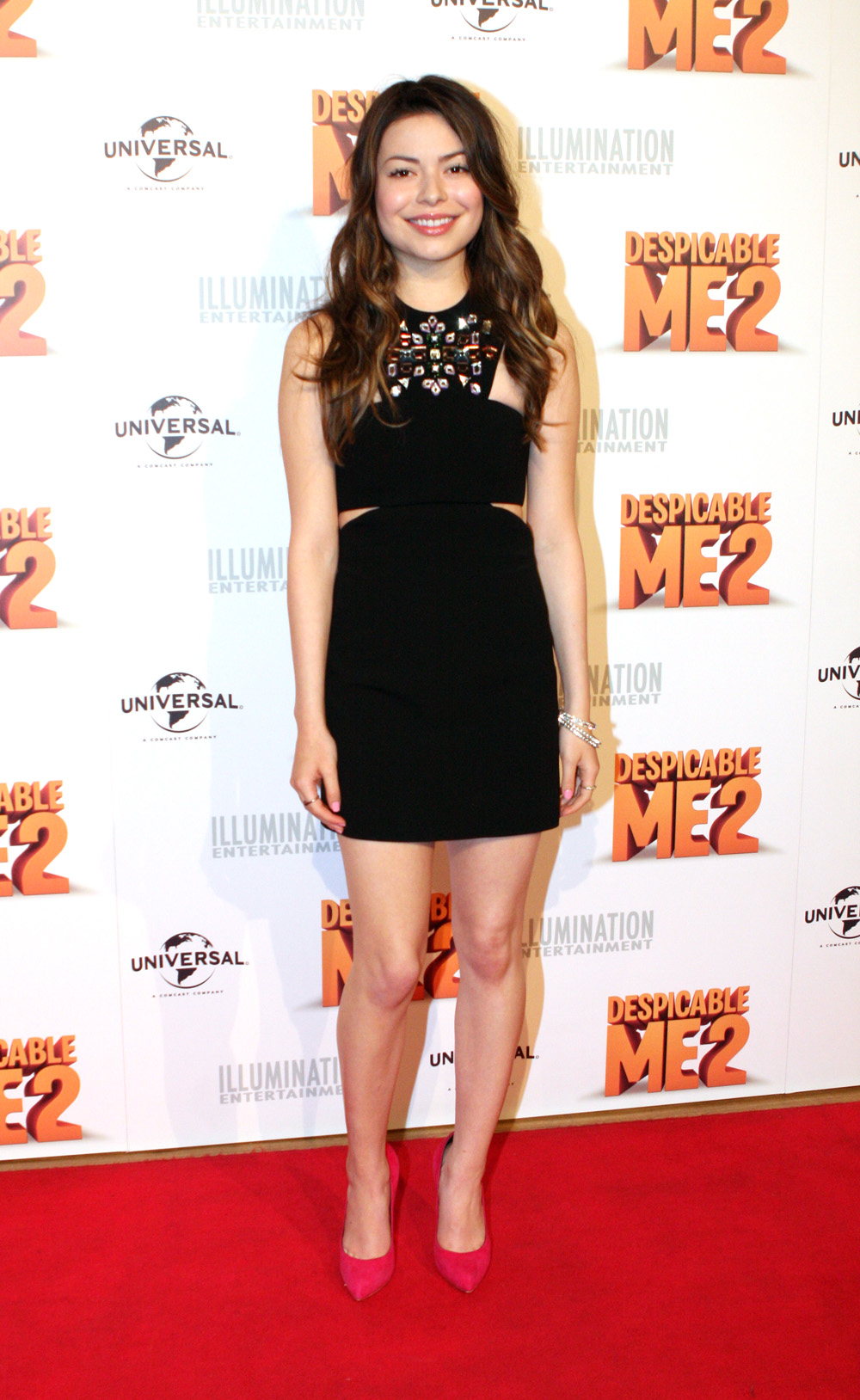 Miranda Cosgrove at Despicable Me 2 red carpet movie premiere at Event Cinemas, Bondi Junction, Sydney, Australia.